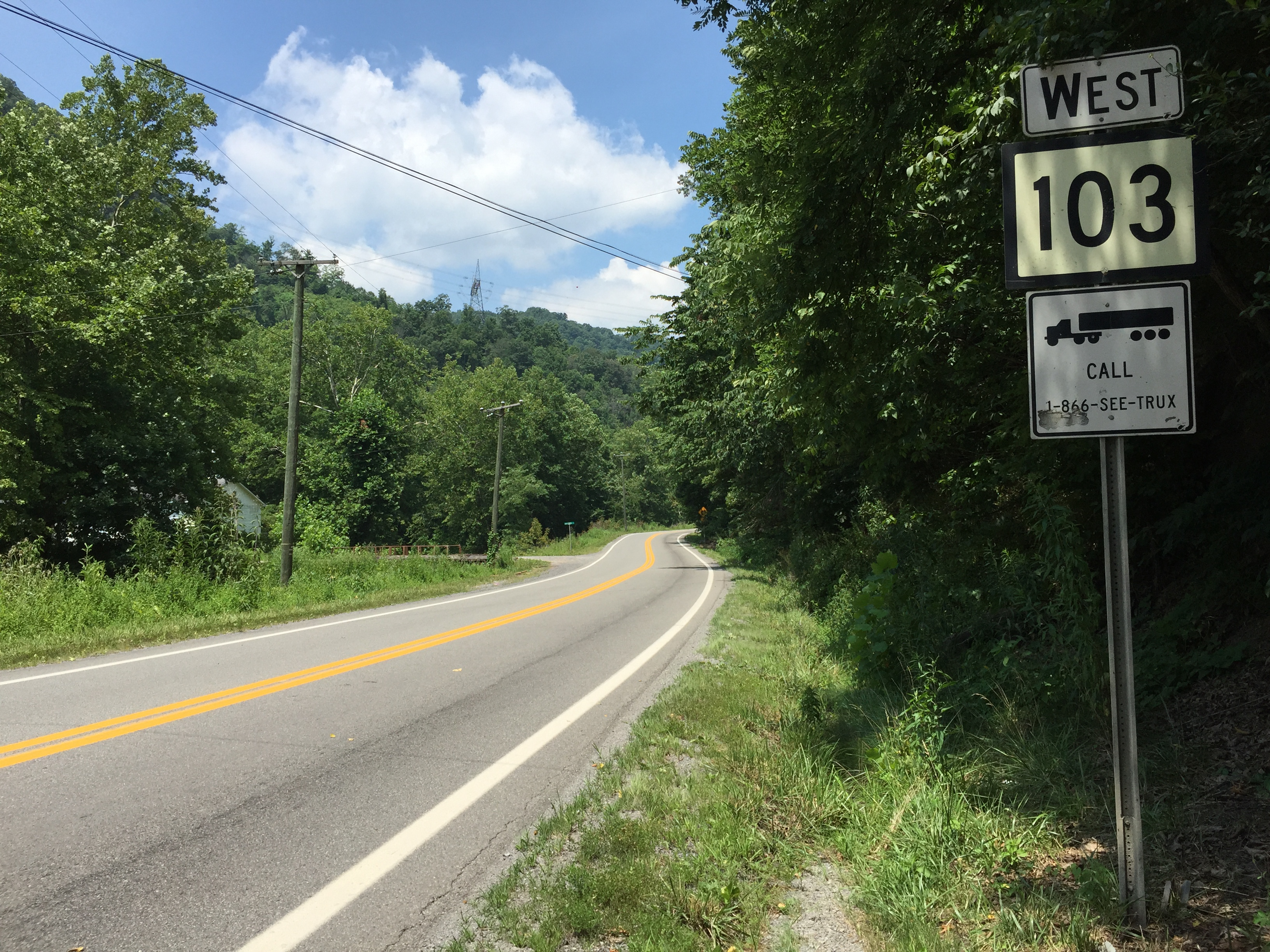 View west along West Virginia State Route 103 at Saw Pit Hallow Road in Black Wolf, McDowell County, West Virginia